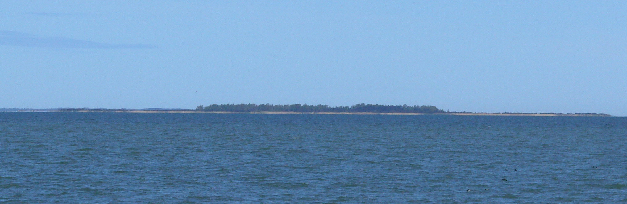 Ahelaid, a small island in Estonia. View from Muhu island.